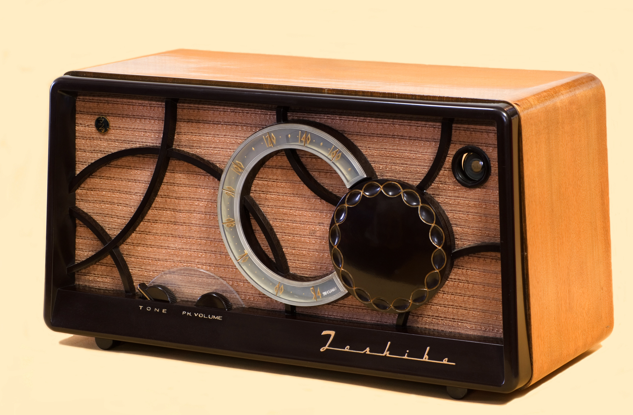 1955 AM-only Toshiba vacuum tube radio model 6SC-19, with 5 tubes.